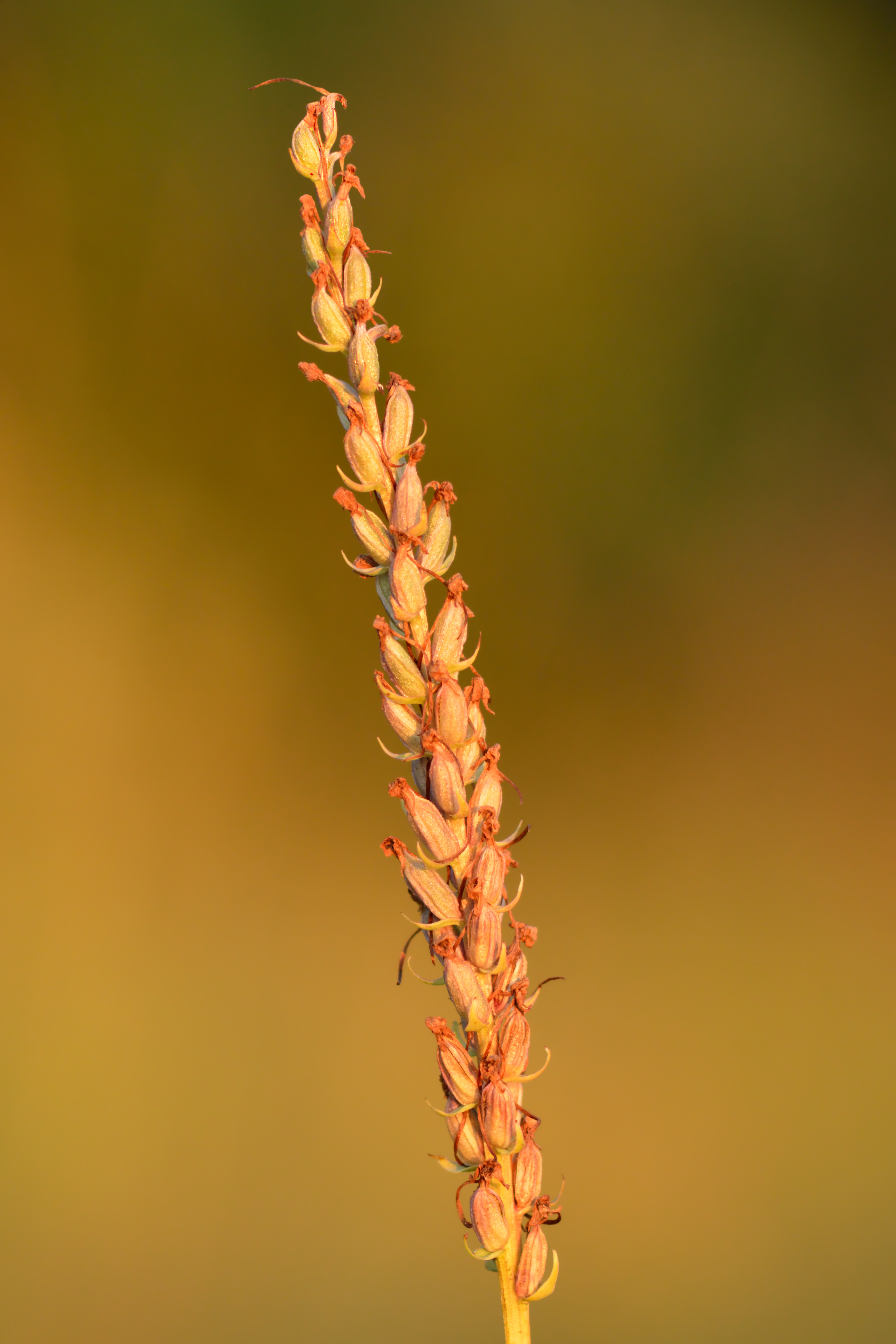 Infructescence of fragrant orchid